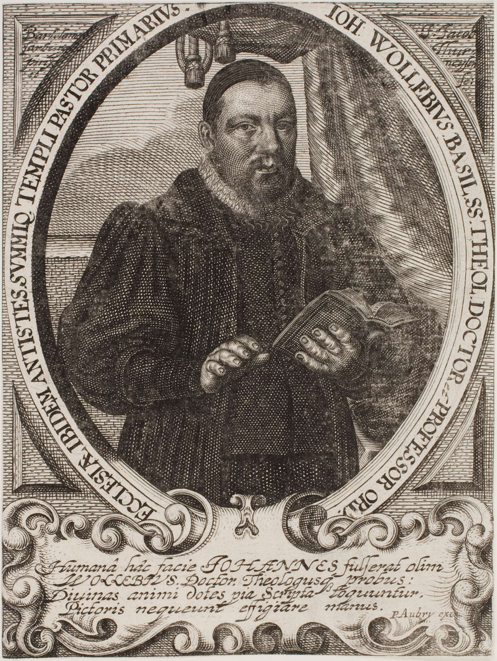 Portrait of Johnnes Wolleb